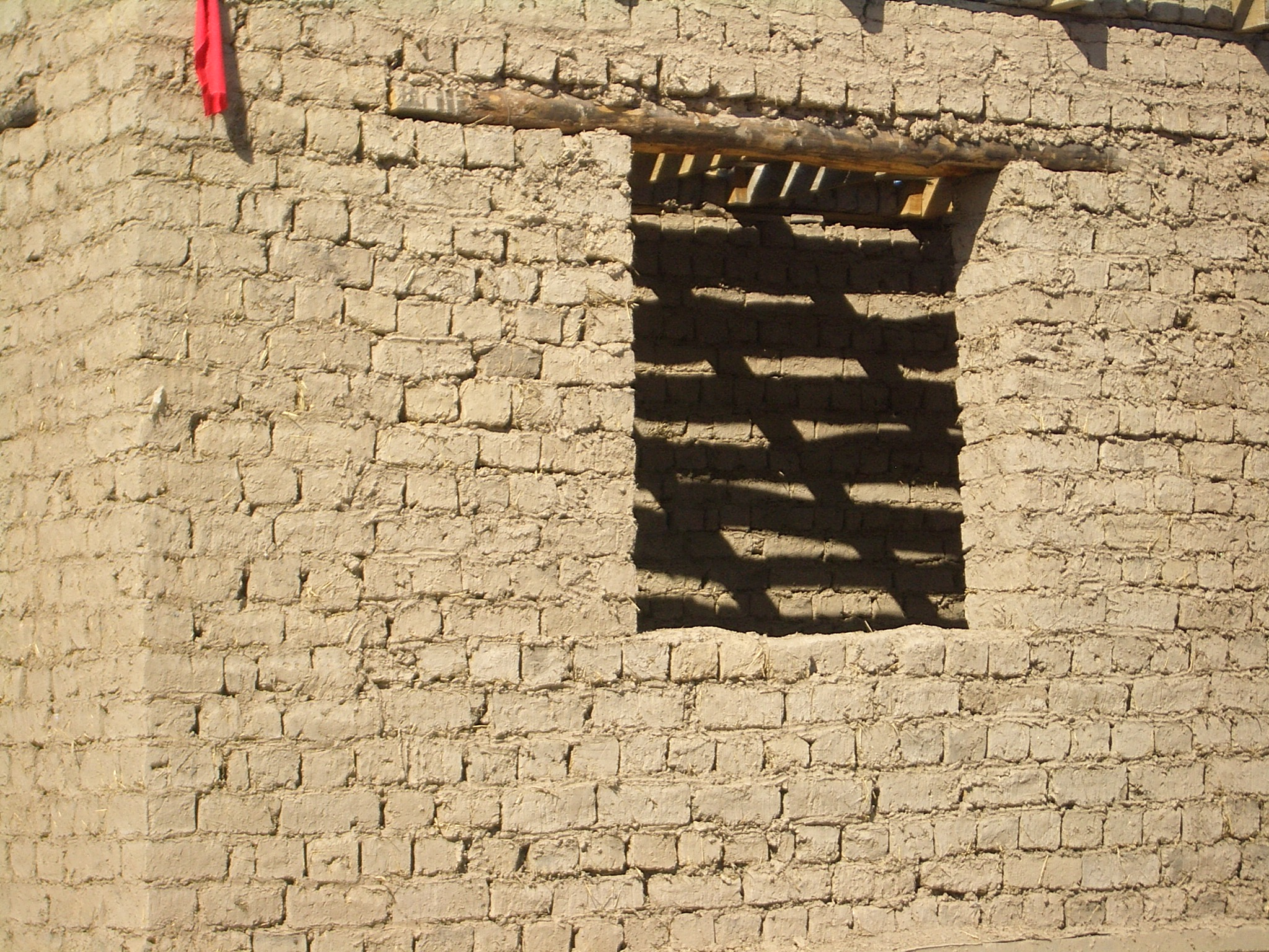 Adobe brick house under construction in Milyanfan village, Kyrgyzstan.